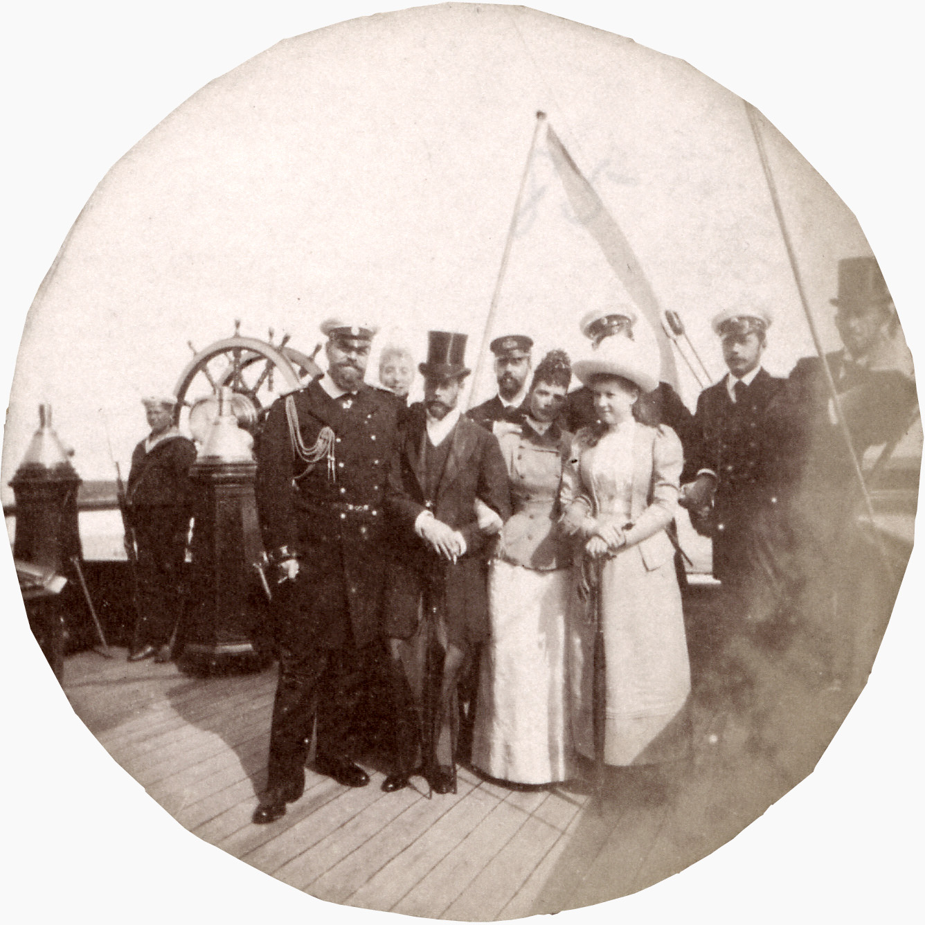 Left to Right: Tzar Alexander III, Crown Prince George (George V), Marie Feodrovna, Maria of Greece, Tzarovitch Nicolas (Later Tzar Nicholas II of Russia). Probably taken on the Royal Yacht near Denmark. Cyfrwng/Medium: Black and White Print